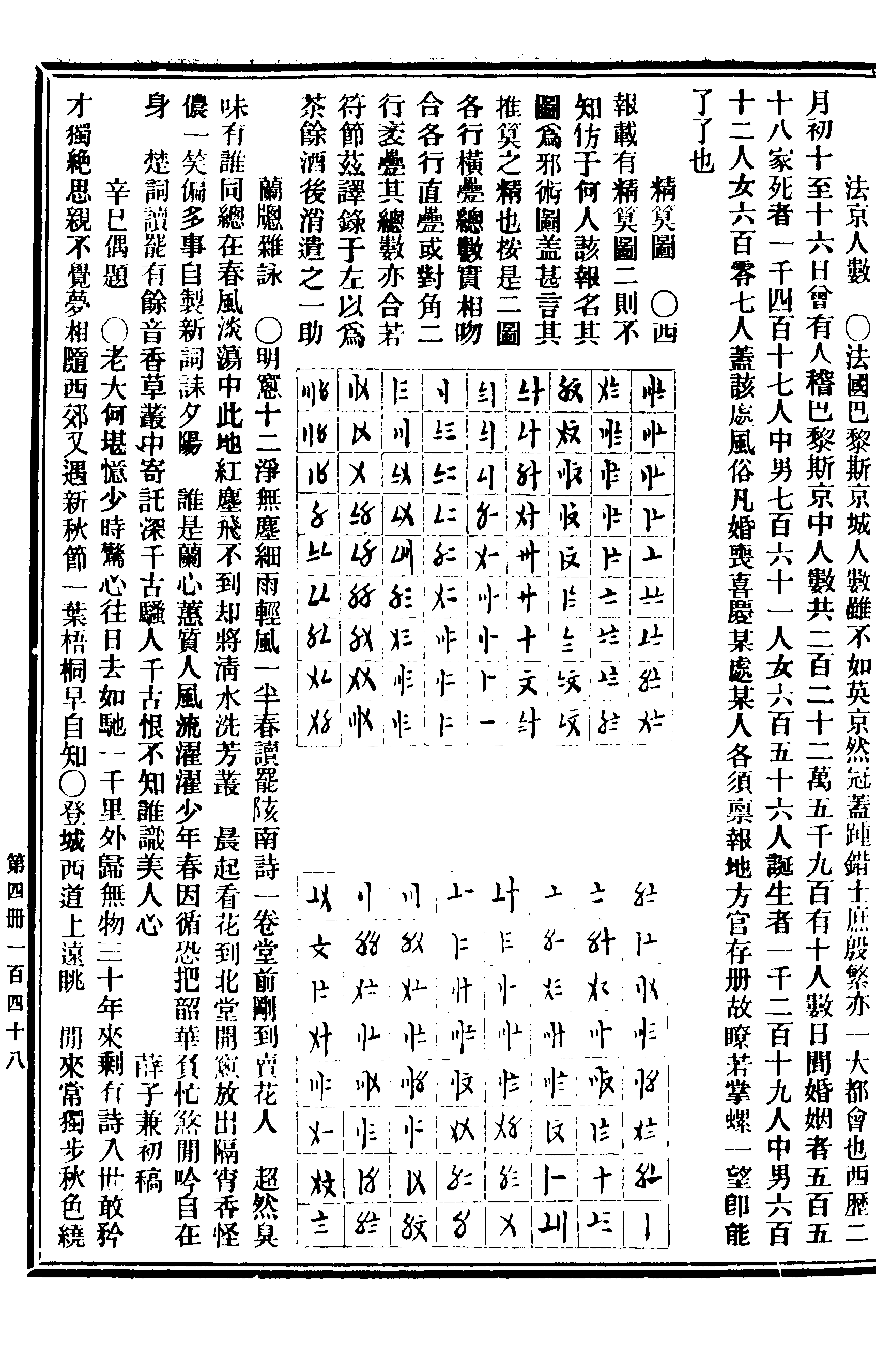 Two magic squares written in Suzhou numerals, published in the Catholic journal Yiwen Lu in the Late Qing period.